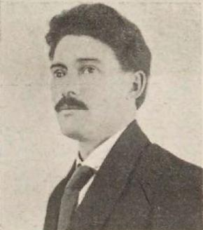 Malikov Nikolai Petrovich, film director